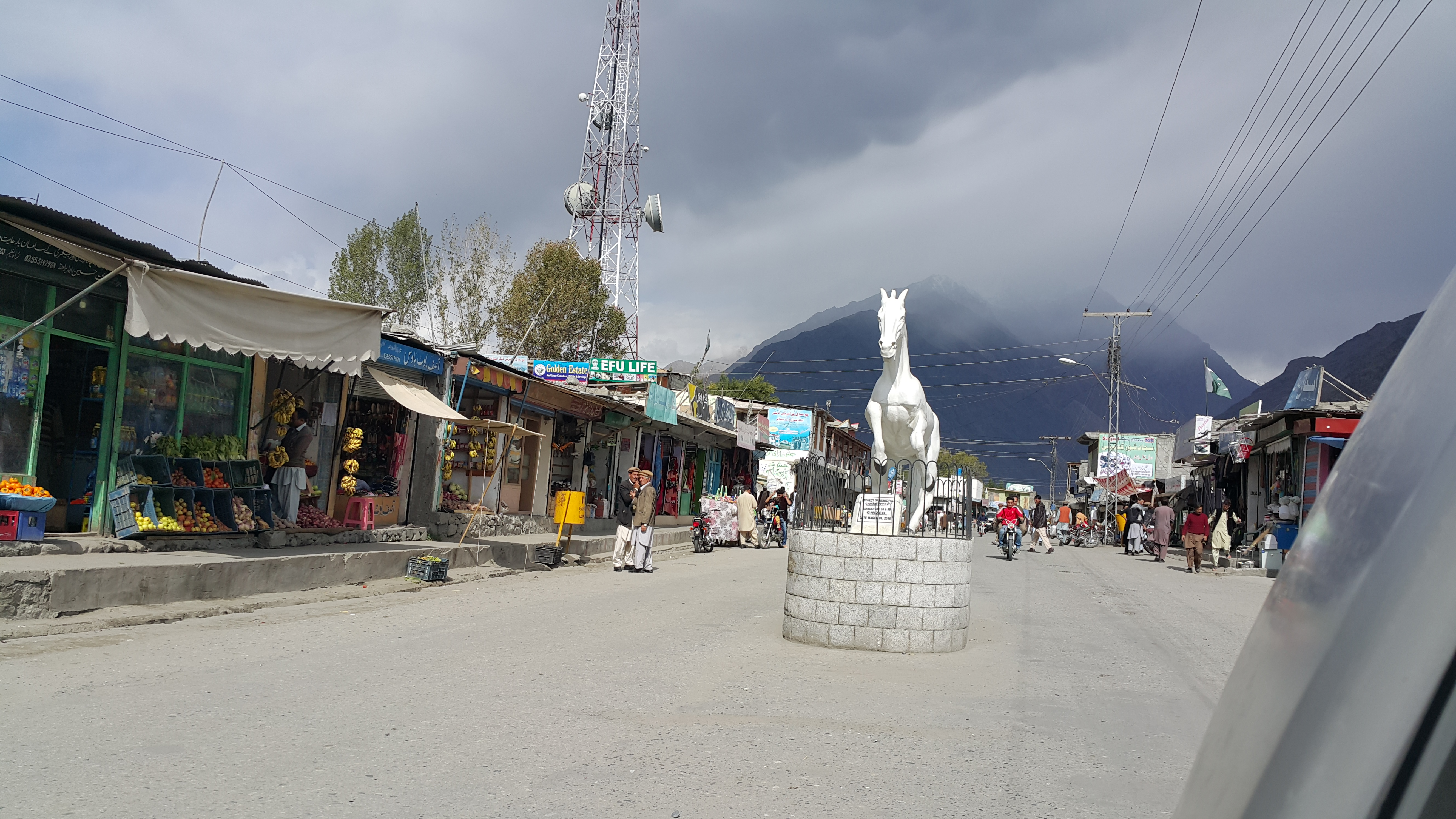 Statue of Horse situated at Gahkuch. Project made by Gahkuch Municipal Committee. Inaugurated on 1st March 2016.